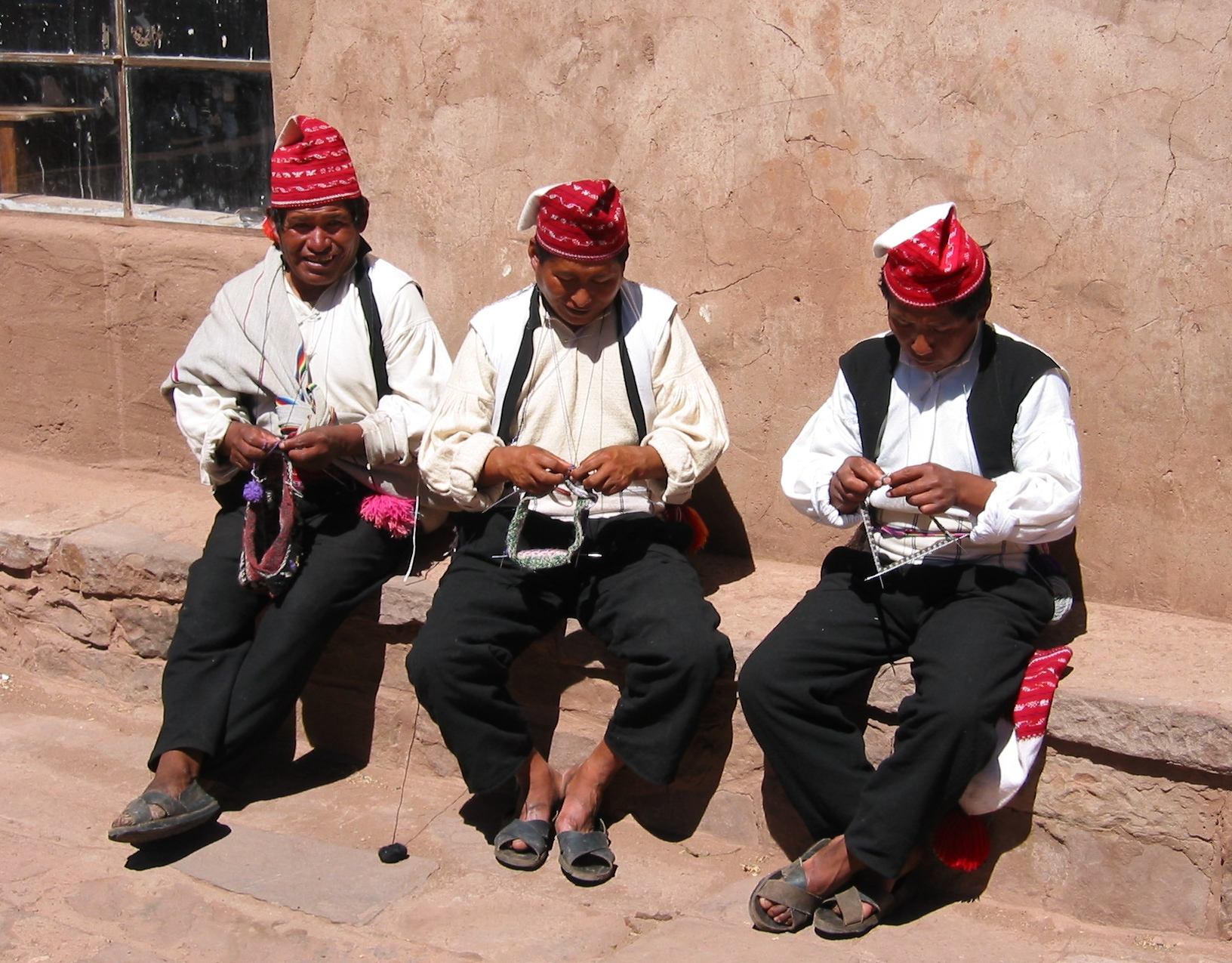 Three men knitting on the Island of Taquile, Lake Titicaca, Peru. The island is known for its textile goods.